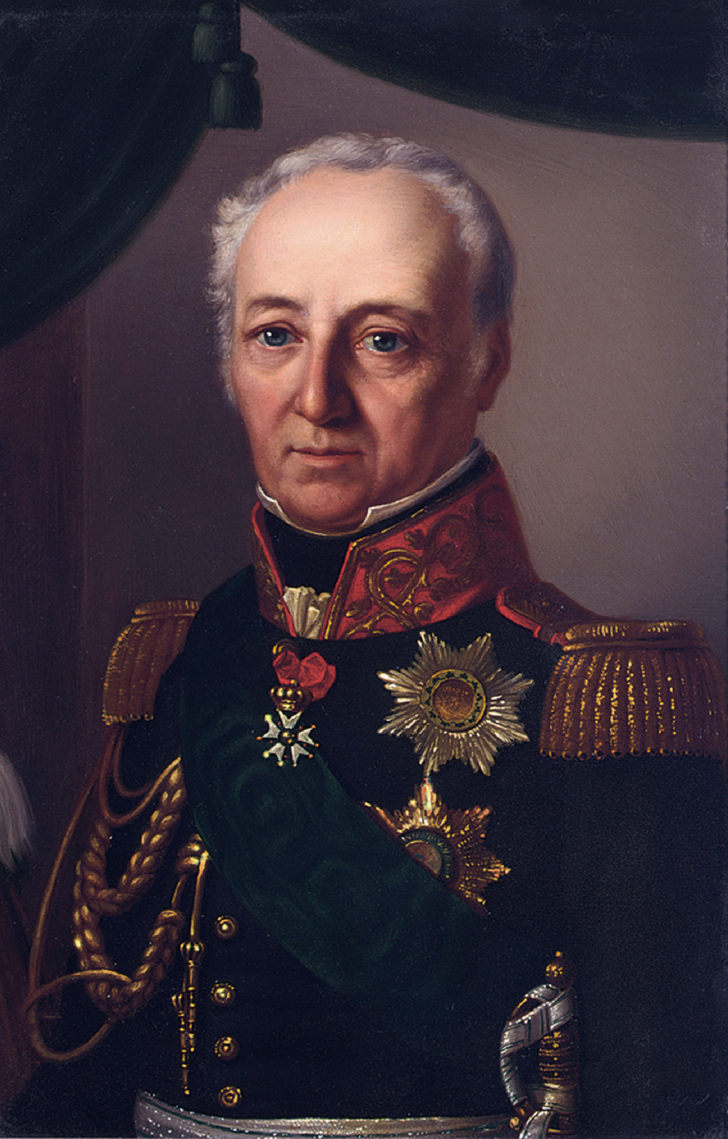 Johann von Sachsen (1801-1873)